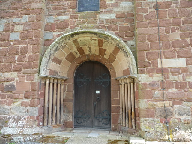 St. Eata's Norman Arch The Norman arch with its freestanding columns of St. Eata's church, is on the North face at the base of the tower.